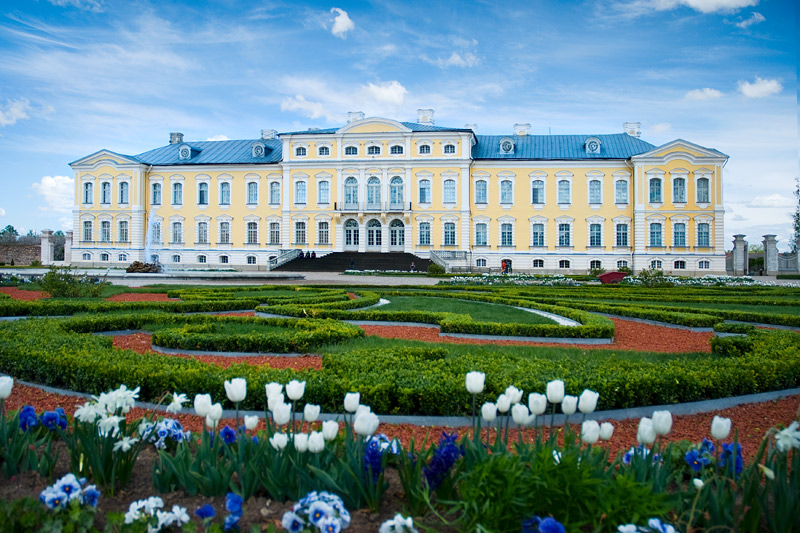 Rundale Česky: Rundale